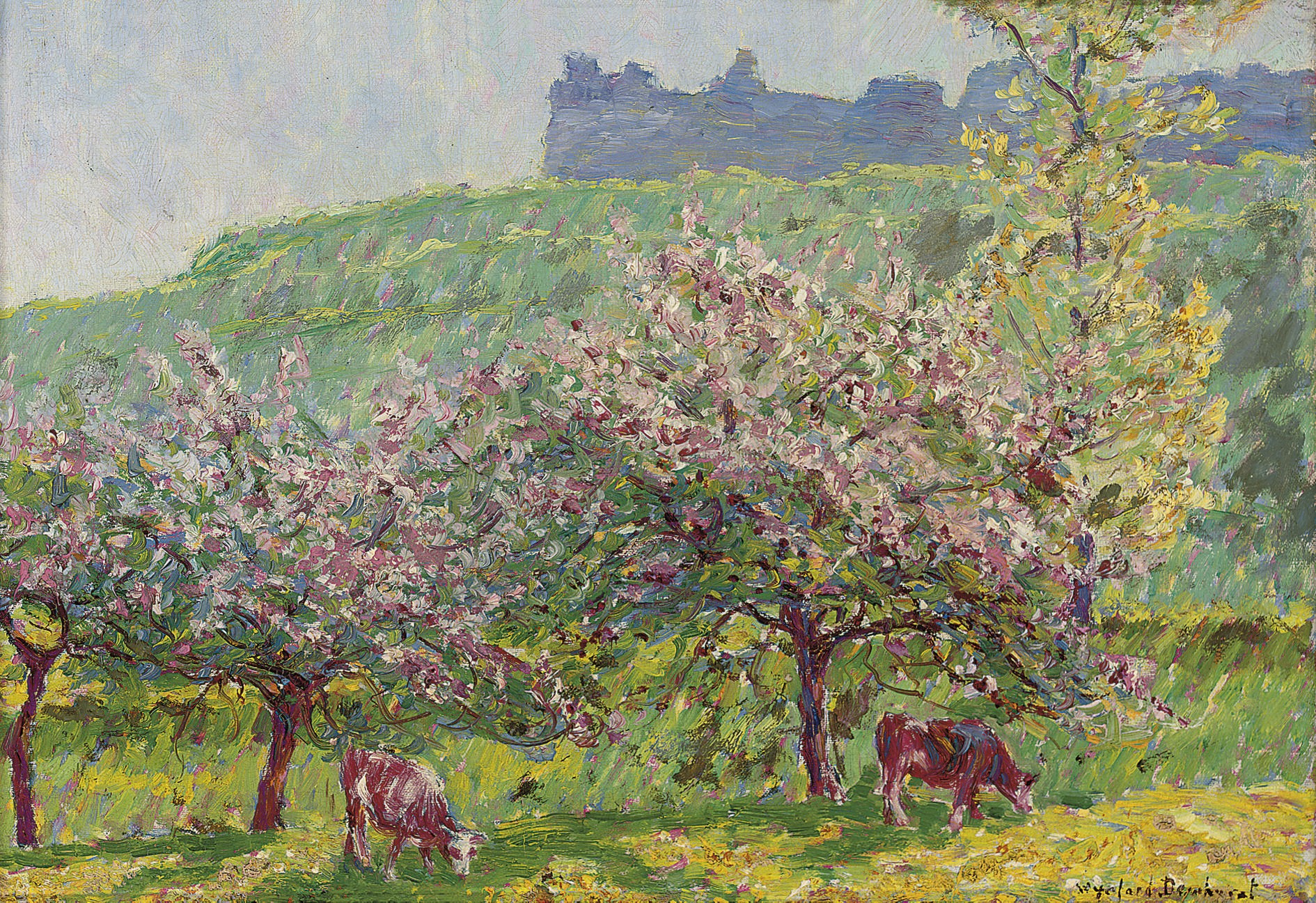 Apple-Blossom time in Arc-la-Bataille. Signed Wynford Dewhurst and inscribed Apple-Blossom time in Arc-la-Bataille (on old label). Oil on canvas, 38.3 x 55.4 cm